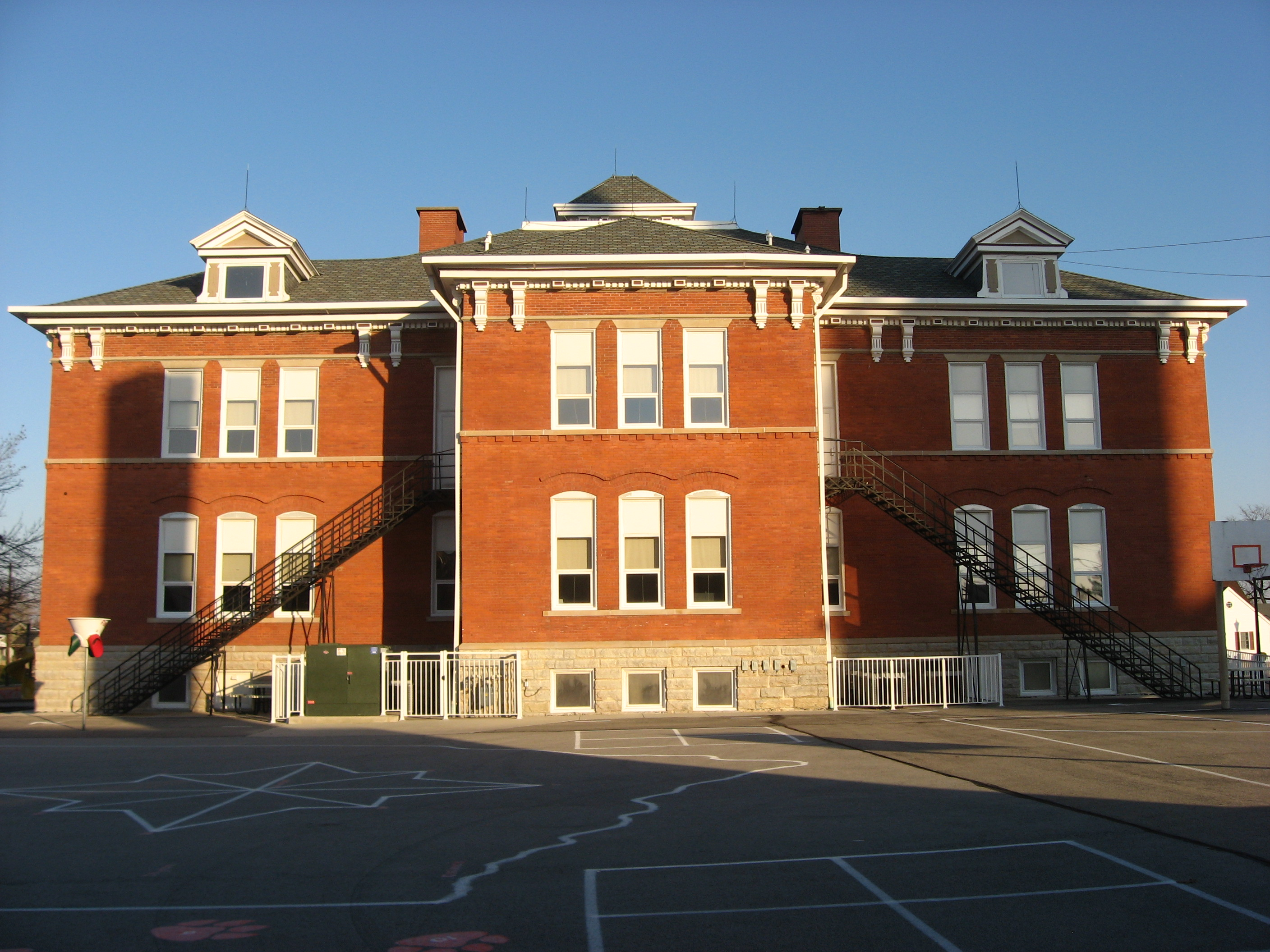 Western side of the Minster Elementary School, located on the southwestern corner of the intersection of Lincoln and Fifth Streets in Minster, Ohio, United States. Built in 1904, the school was listed on the National Register of Historic Places as a part of the Cross-Tipped Churches of Ohio Thematic Resources.